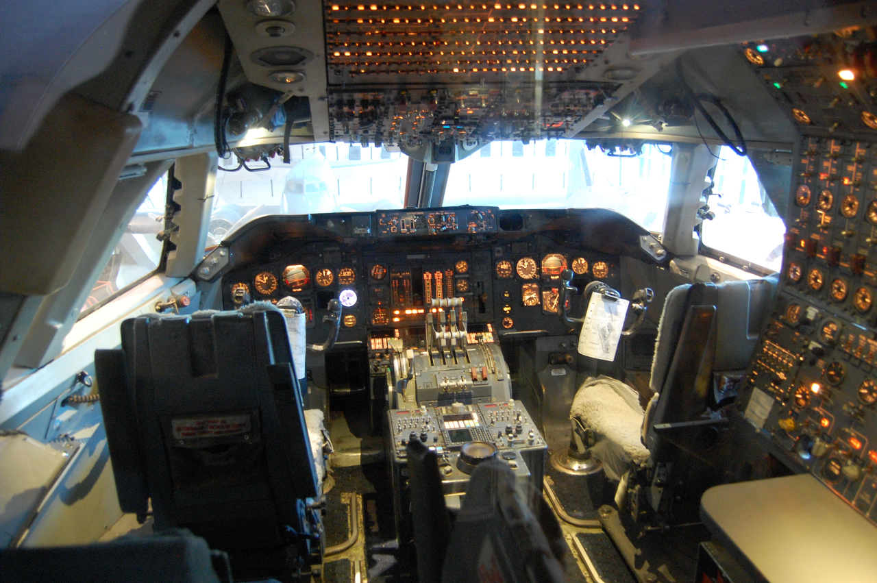 Cockpit of a Boeing 747-100 on display at the Air & Space Museum in Washington, D.C.